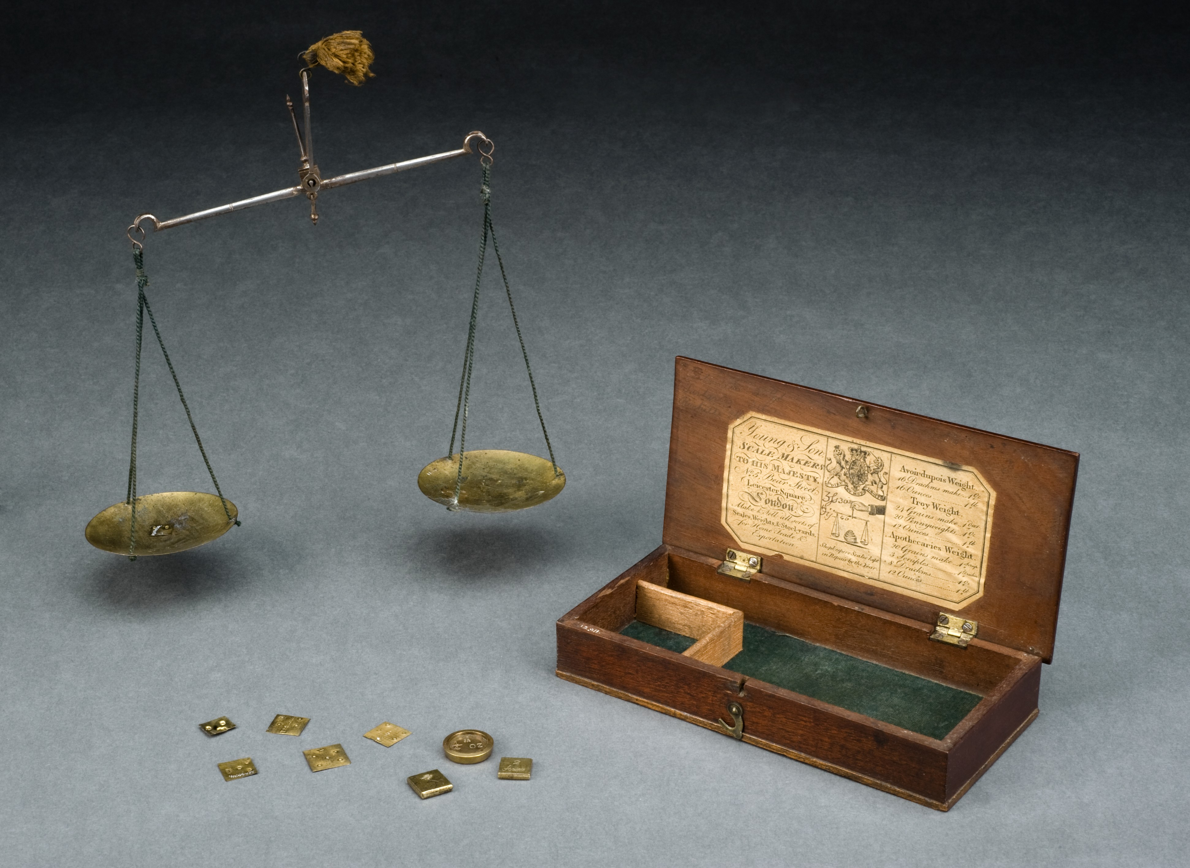 Apothecary's balance with steel beam and brass pans in wooden box with 9 assorted weights, made by Young and Son, London, English, 1750-1837. Graduated black background. Wellcome Images